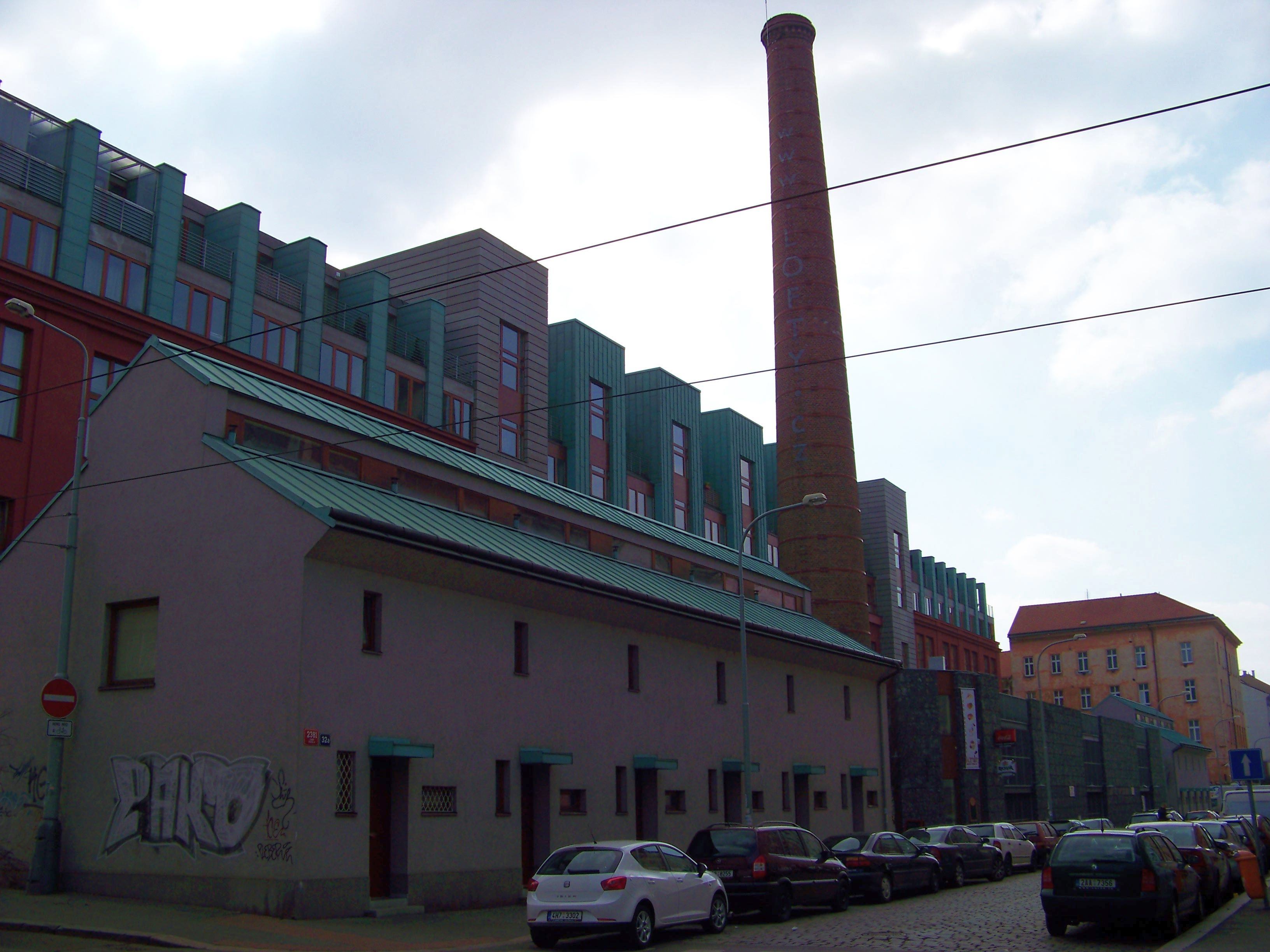 Prague-Libeň, the Czech Republic. Novákových street, Palmovka Lofts. - OpenStreetMap(Info)